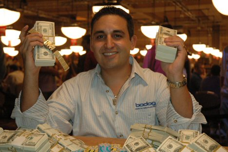 Josh Arieh after winning WSOP event #12 in 2005.